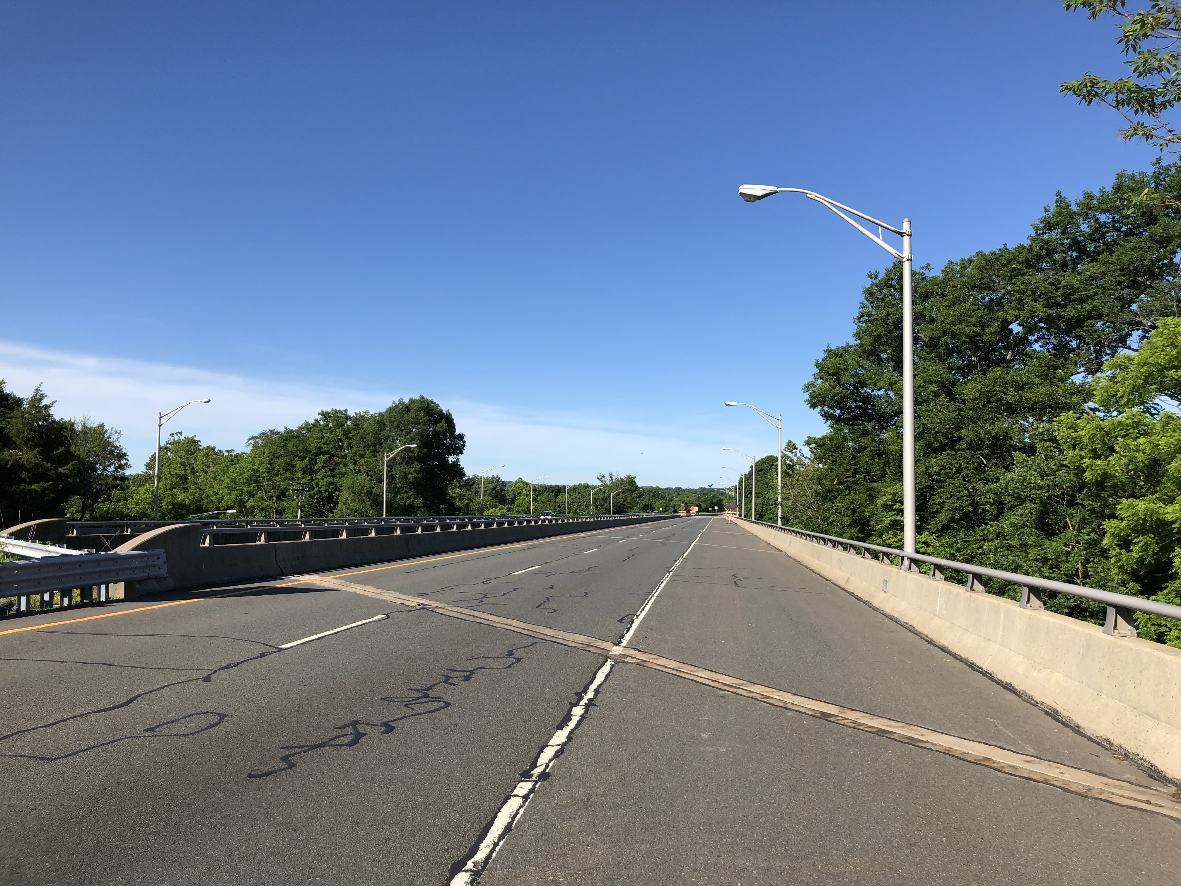 View south along U.S. Route 202 just south of the exit for New Jersey State Route 29 in Lambertville, New Jersey